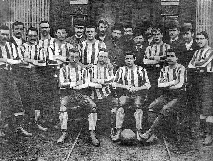 picture of Celtic FC team in 1889